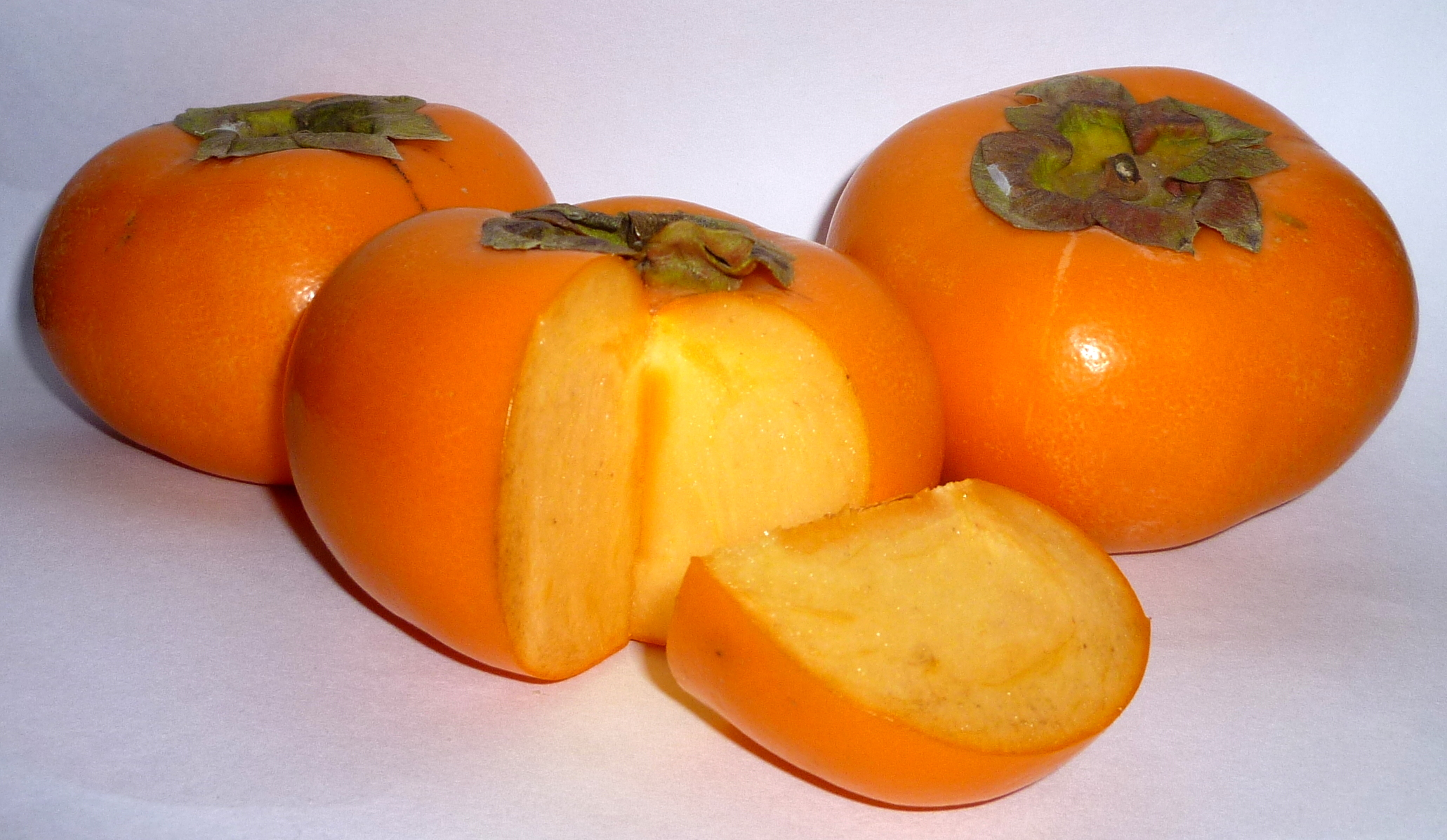 Kaki fruit (Japanese persimmon)